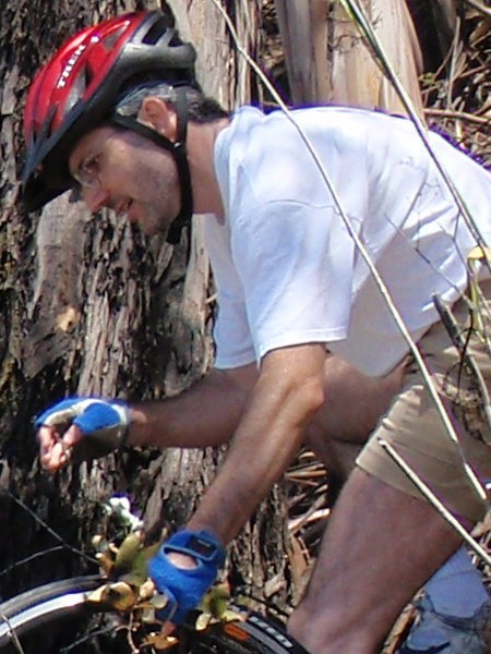 Matthew Dillon with bicycle helmet, holding a bicycle wheel.